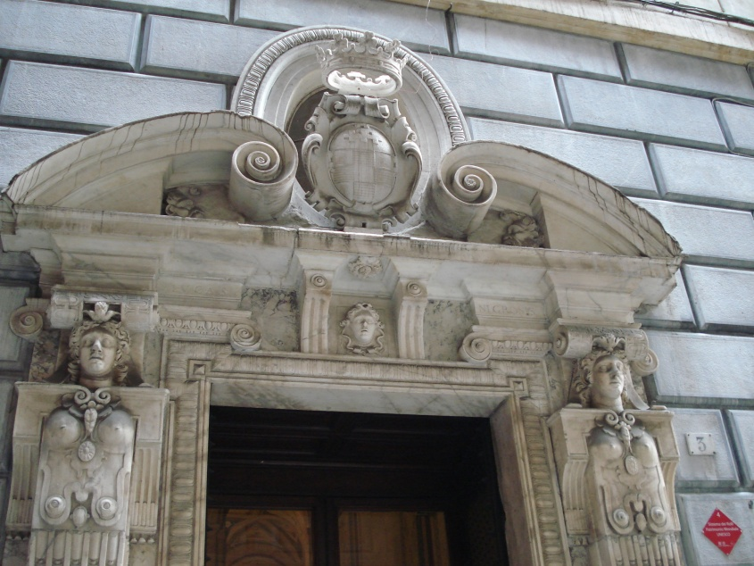 Tommaso Spinola Palace in Genova